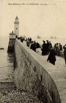 Postcard of France - Department of Seine-Maritime (76) - Le Tréport, pier of the port and headlight - Year 1915